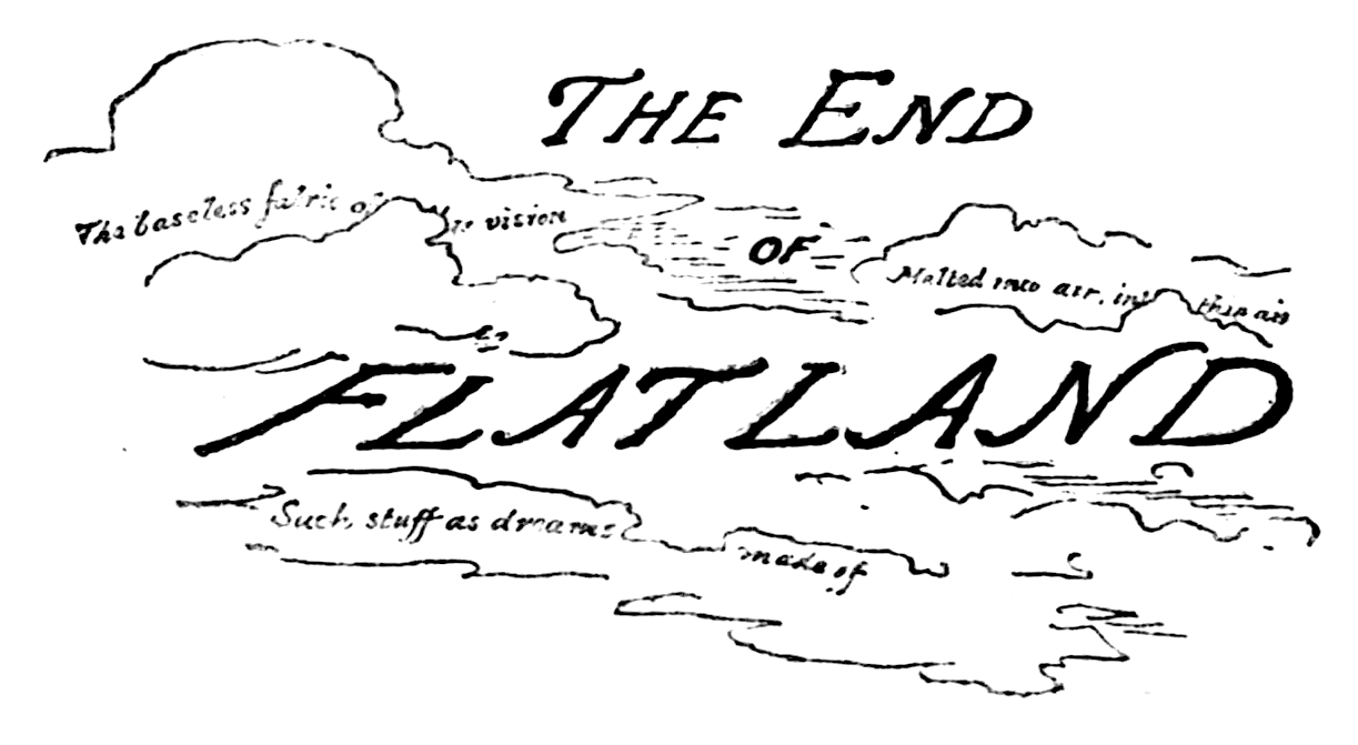 illustration from page 100 of Flatland, the end